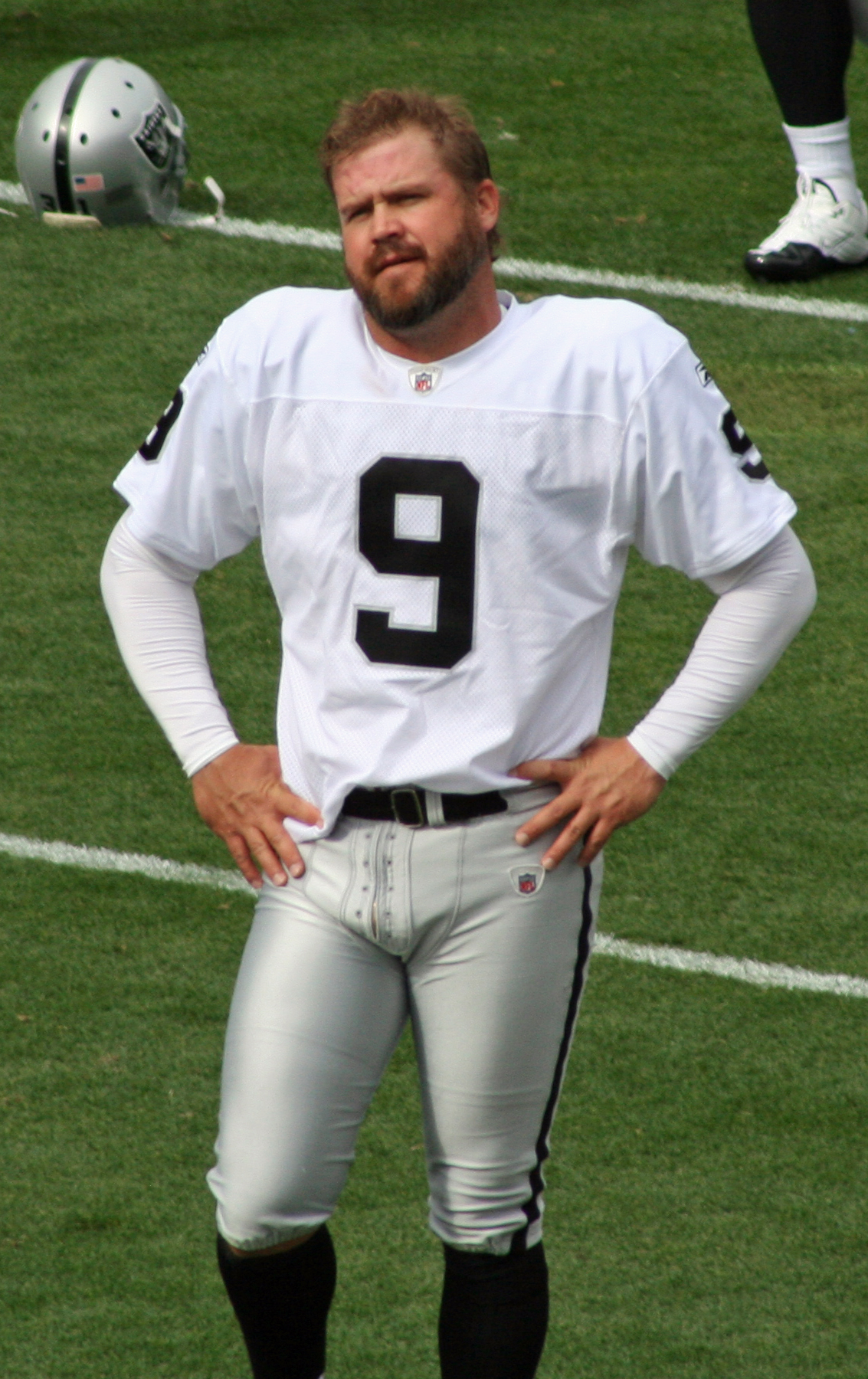 Shane Lechler, punter for Oakland Raiders, during pregame warmup on October 24, 2010